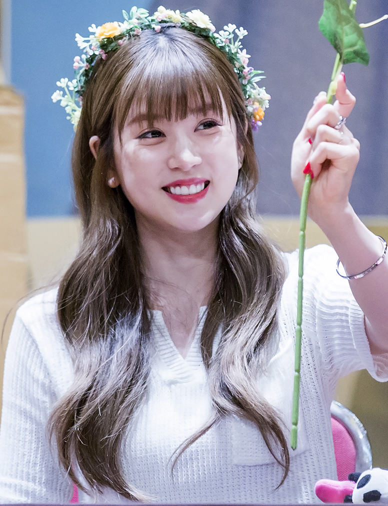 Park Cho-rong of Apink at a fan signing in Sangam in July 2018